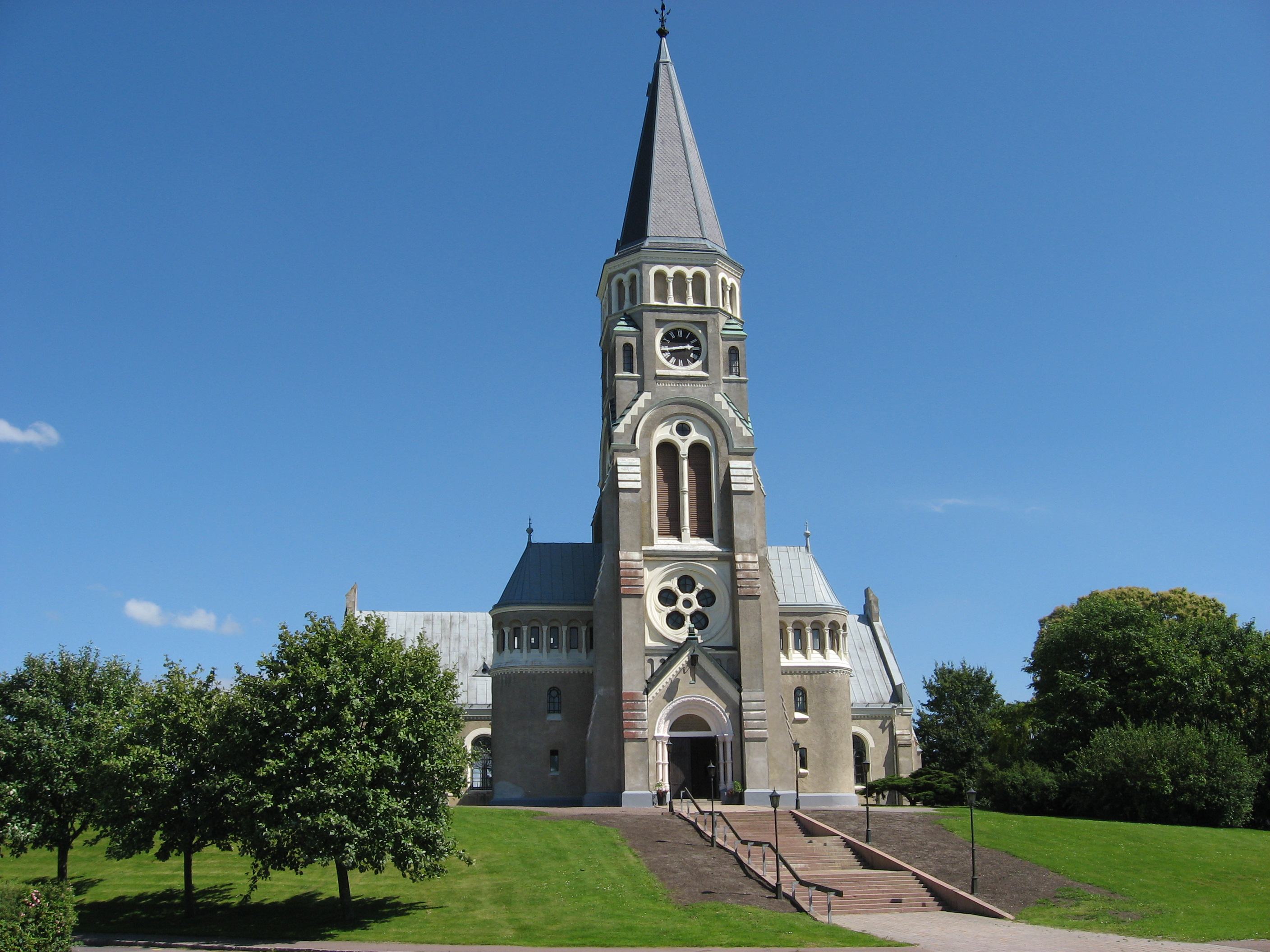 The church in Svedala, Skåne, Sweden